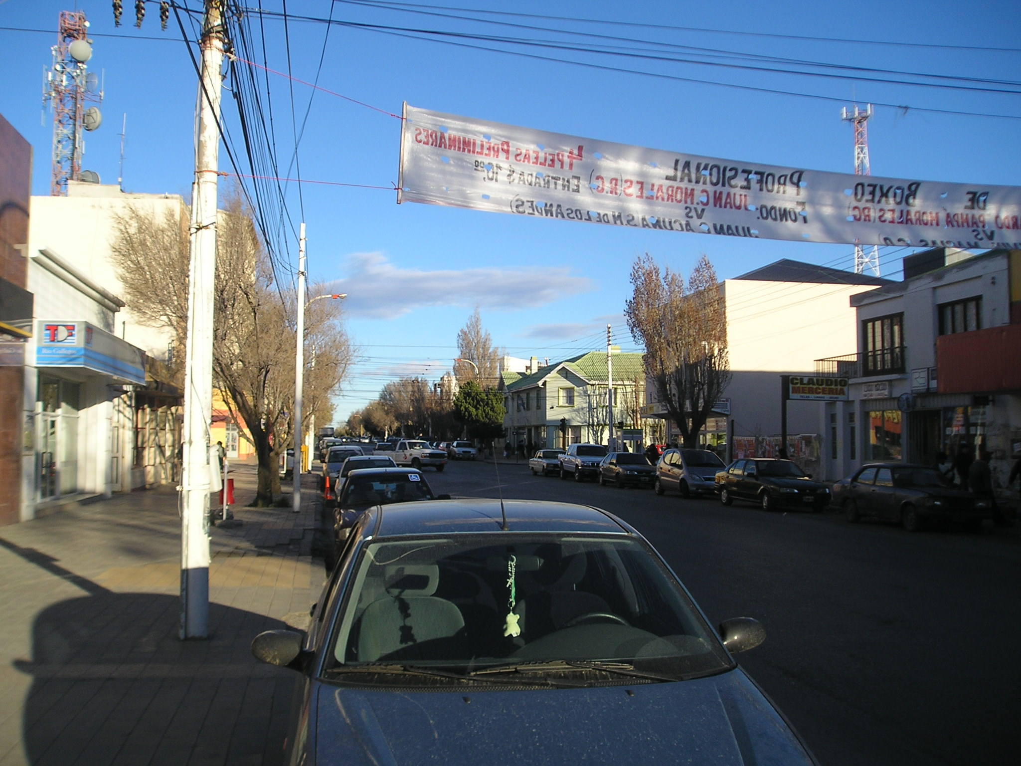 Río Gallegos, Argentina - Avenida Presidente Néstor Kirchner